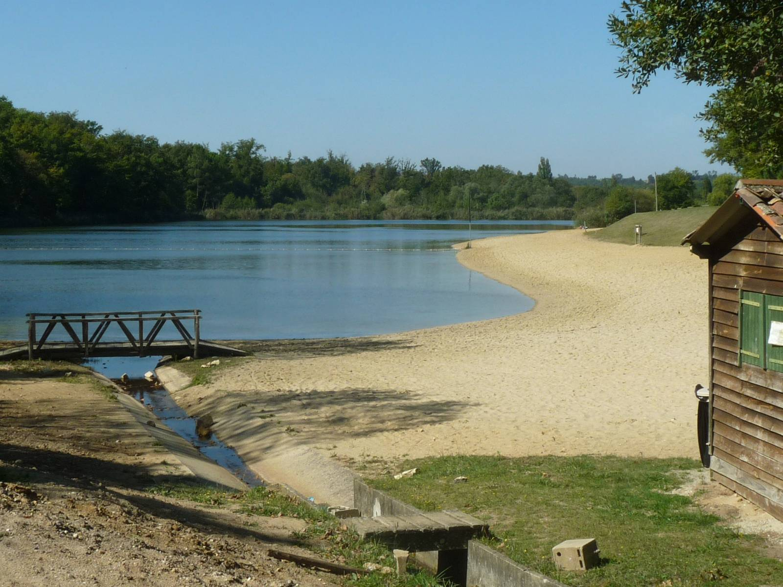 Vallier lake at Brossac, Charente, SW France